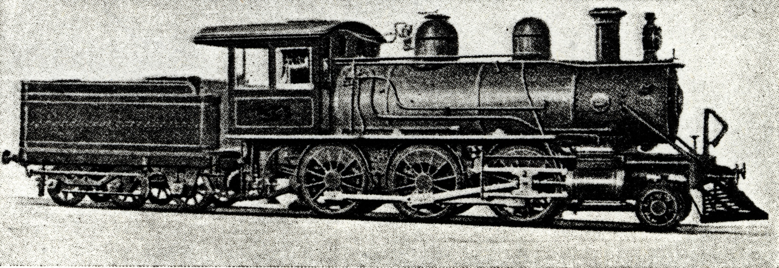 Cape Government Railways 1st Class 2-6-0 of 1891, built by Baldwin